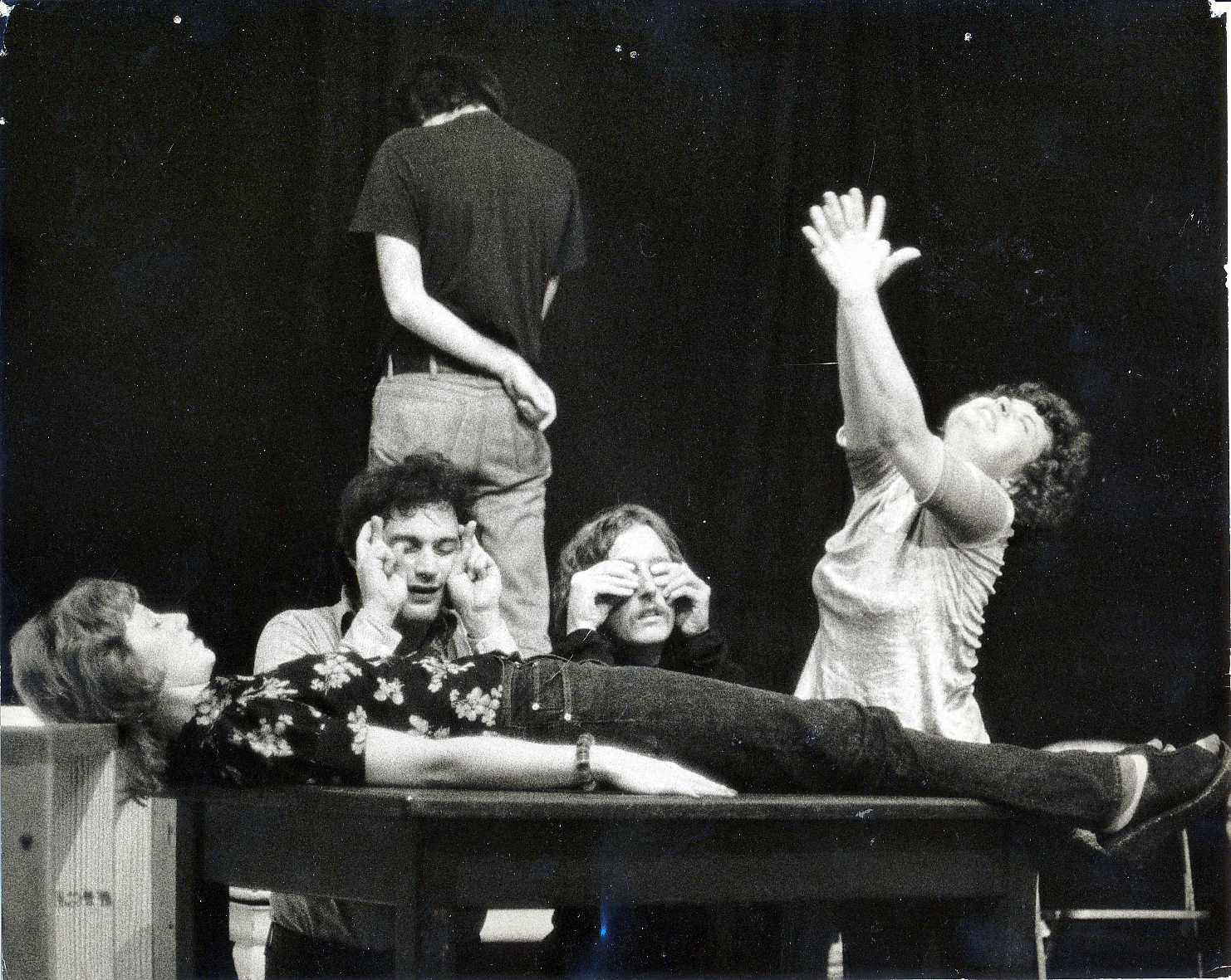 Wicked Women Revue written and produced by Westbeth Playwrights Feminist Collective- scene from Franklin's Bride by Chryse Maile, from l to r, Helen Pugatch, Michael Darrow, Joel Simon, Tom Leo, Alix Elias 1972 Photo by Patricia Horan